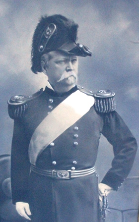 Portrait of Major General Winfield Scott Hancock, from Prof. Ehrlich's Photography Studio and Art Gallery in New York City, c1880s, which is housed at Fort Hancock. Image credit: NPS Photo By Bob Hillman.